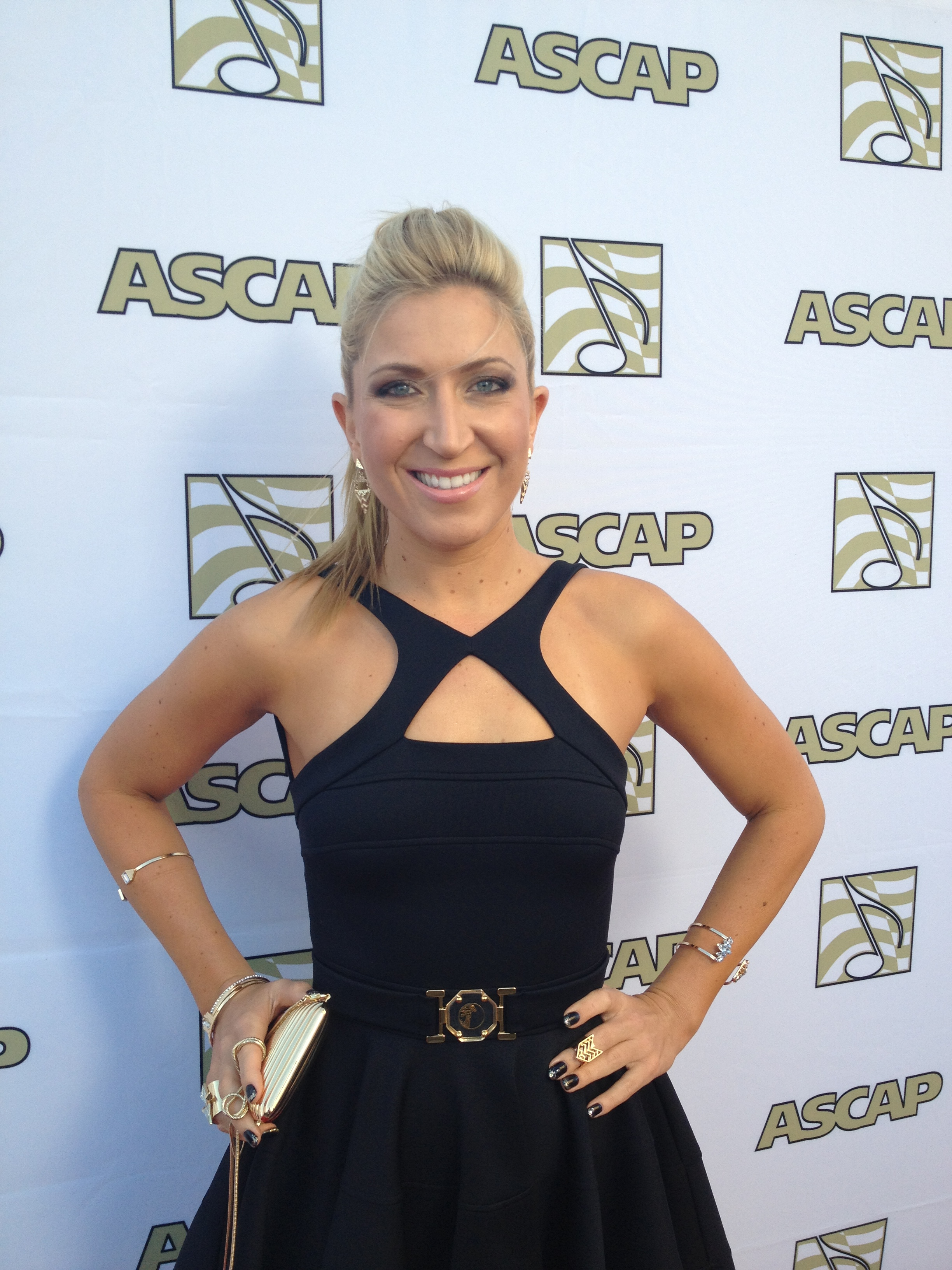 Erin Beck on the red carpet before accepting her award at the 2013 ASCAP Pop Awards in Hollywood, CA.